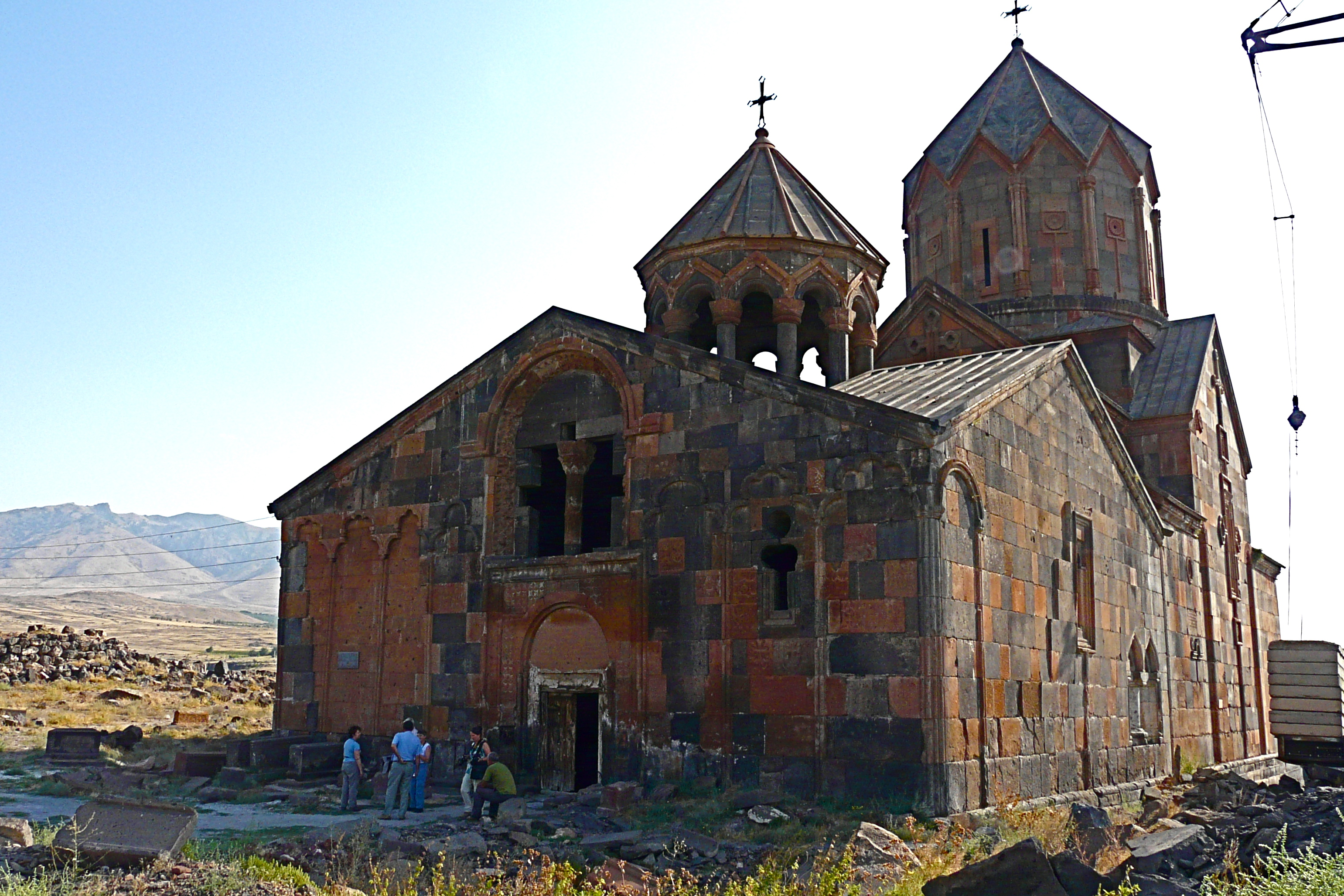 Hovhannavank, Armenia.